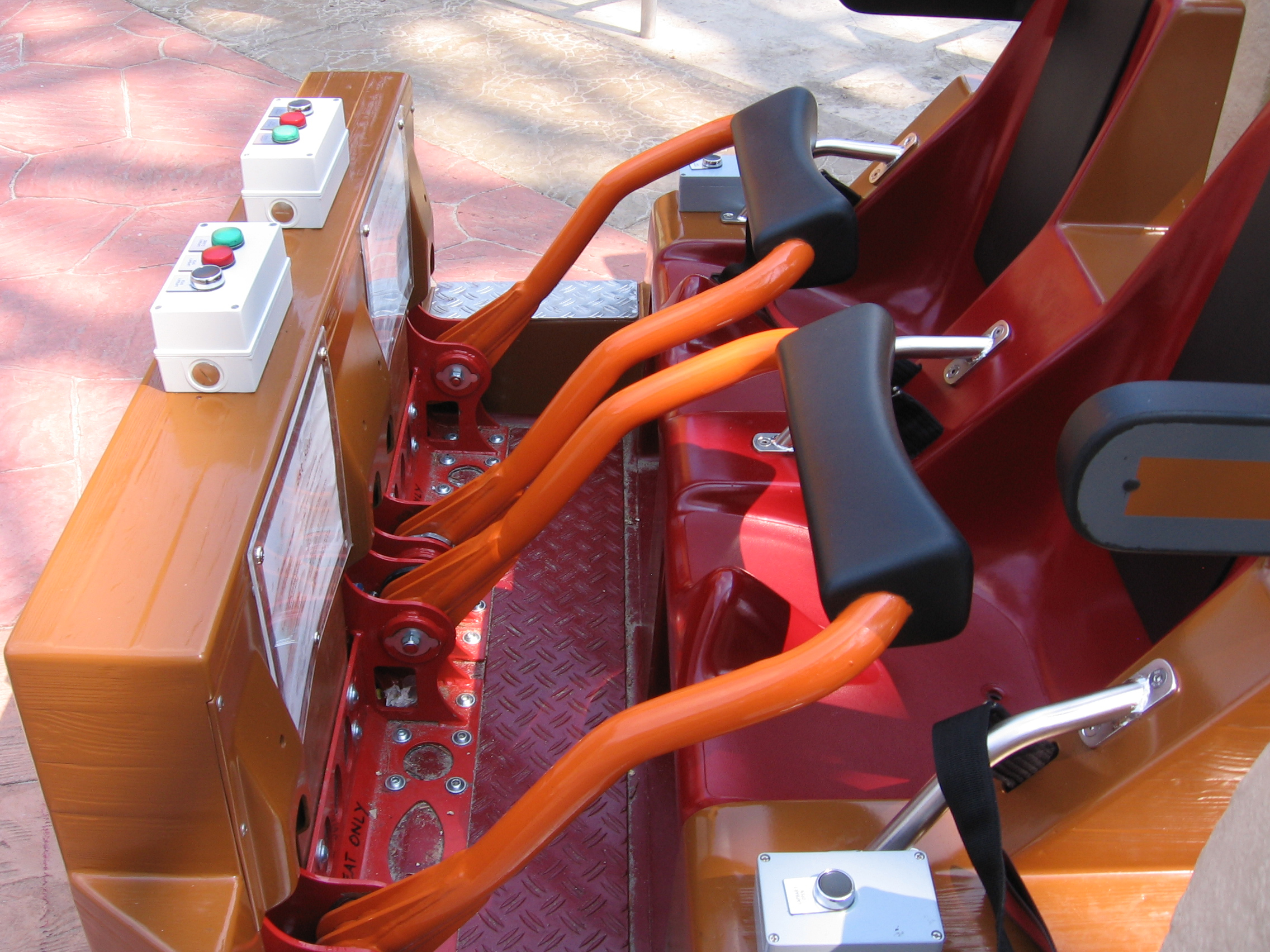 Closeup of El Toro's test seat. The restraints are in the highest position that will allow the train to be dispatched.